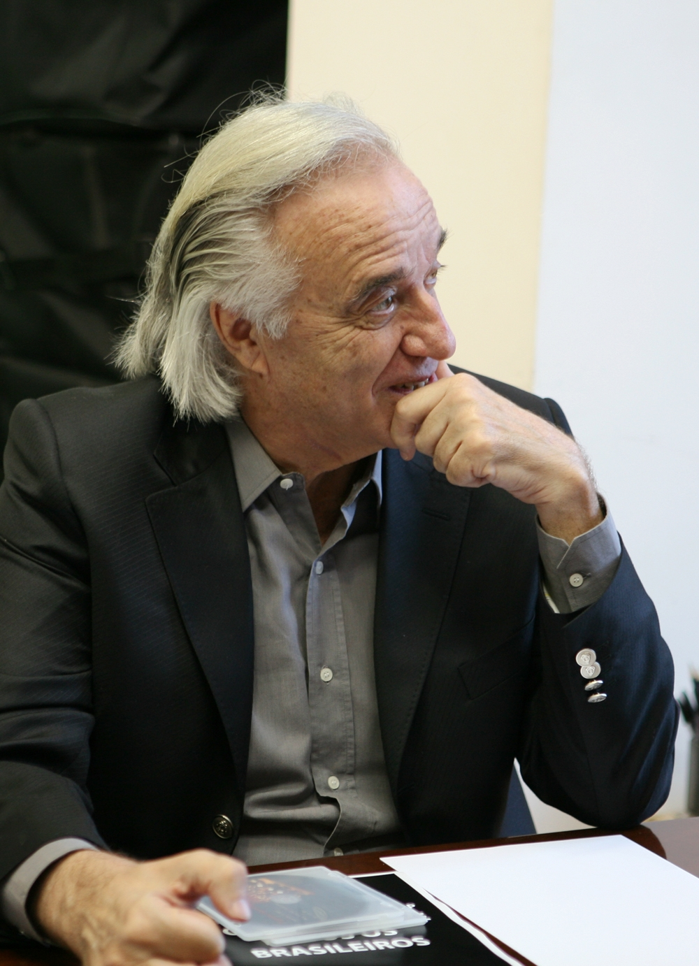 Brazilain pianist and conductor João Carlos Martins meeting in Ministry of Culture (Brazil) in november 2010